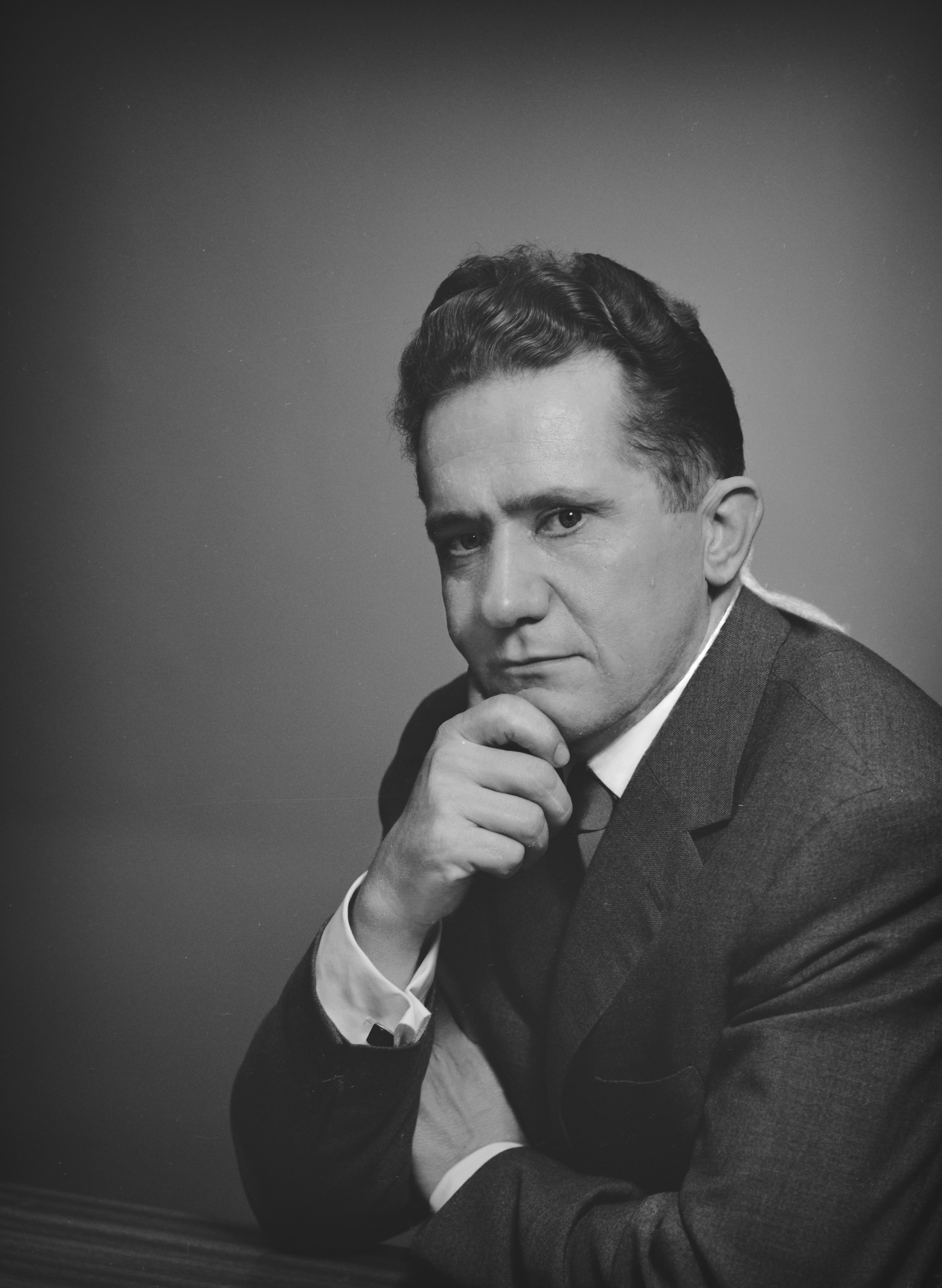 Photograph of the Finnish lawyer, banker and government minister Heikki Tuominen (1920–2010).